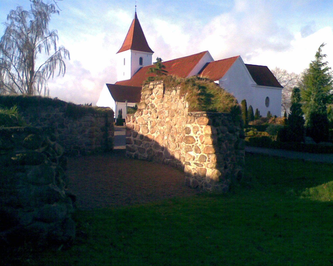 Medieval tower and church in Malling, Denmark